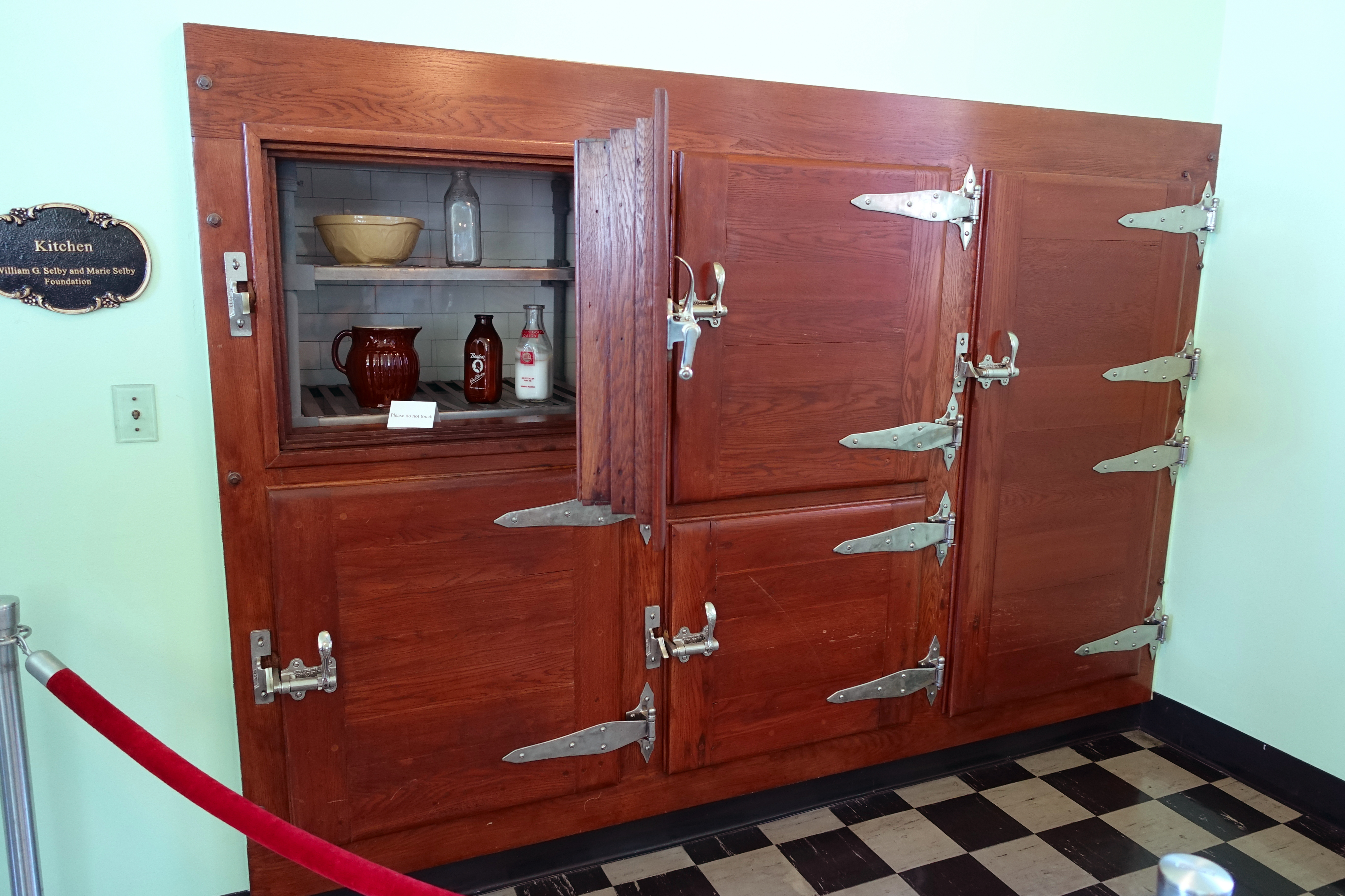 Furnishings in the Cà d'Zan - John and Mable Ringling Museum of Art - Sarasota, Florida, USA. This is a Kelvinator Electric Refrigeration Unit, c. 1926.